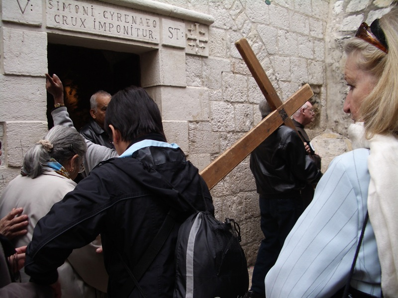 Pilgrim with cross (Jerusalem)